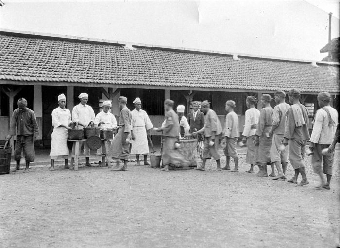 Meal-time in the prison of Malang, Java.